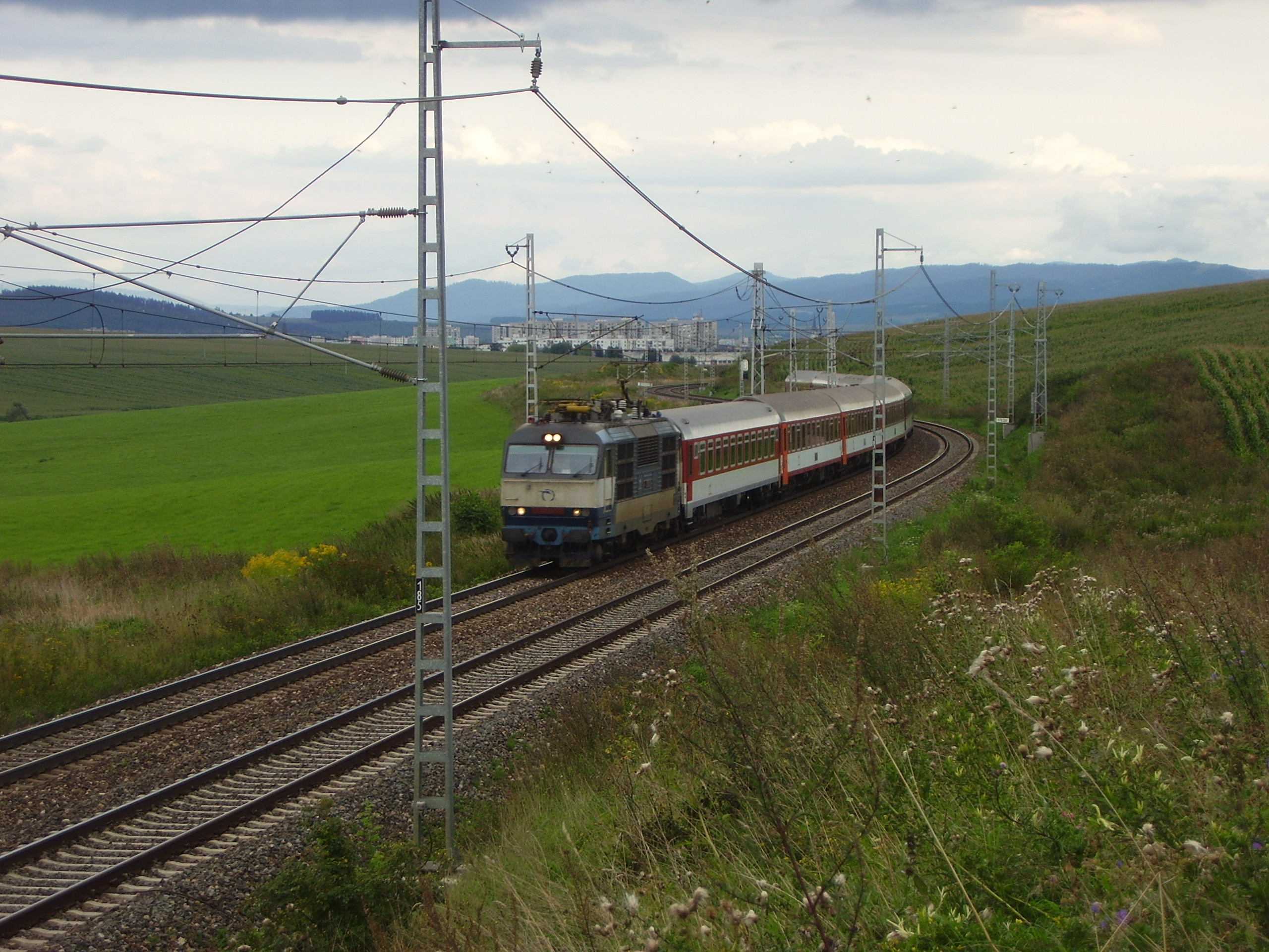 IC train with locomotive 350 befor Spišské Tomášovce